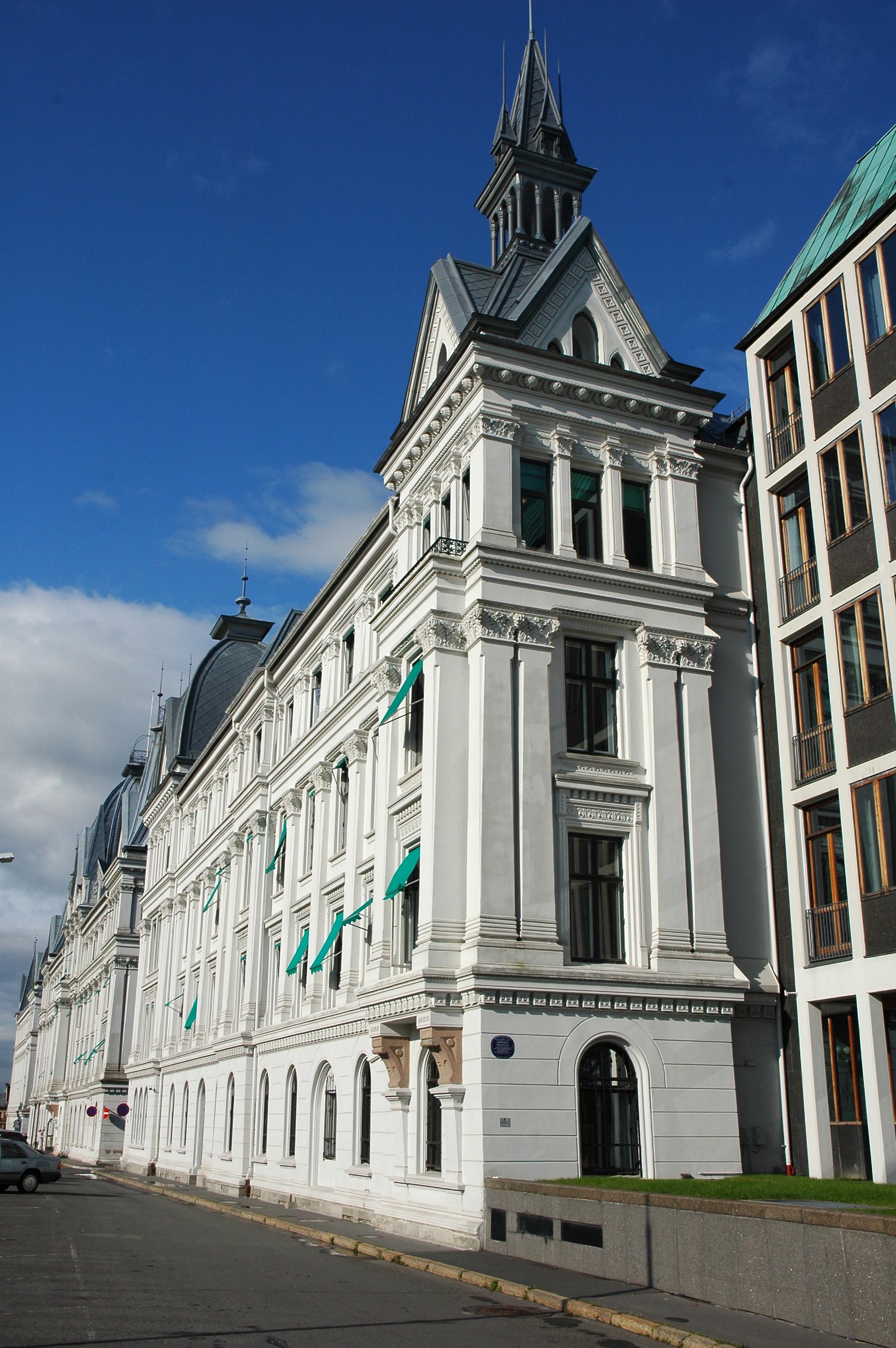 Victoria Terrasse in Oslo, Norway